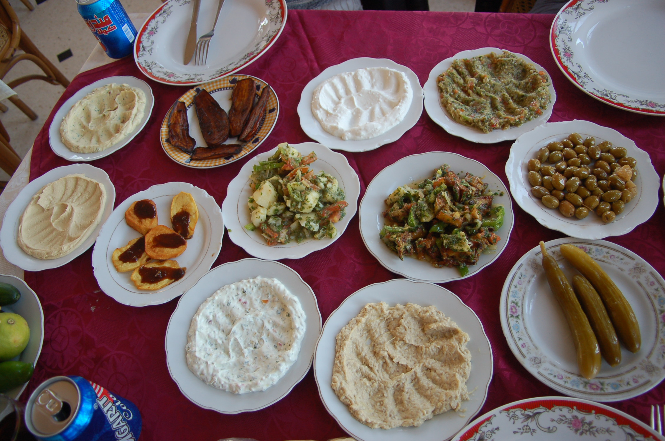 As unbelievable as it may seem this stunning variety of small dishes dishes was just an appetizer meant to be shared by two people. The origin of the word mezze is found in the Greek language mezés (μεζές), but in the Arab world the word muqabbilat is also used. Mezzes are served in the entire region of the Eastern Mediterranean.